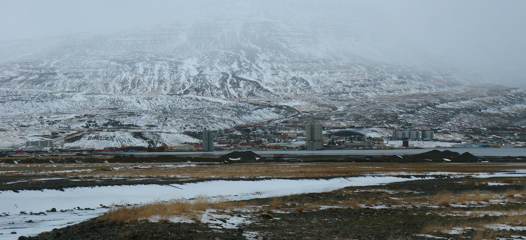 Northeast toward to town of Reyðarfjörður, November 23 12:08 Iceland, November 2007 Photo by me user:debivort (or friend, with permission given to freely license photo).